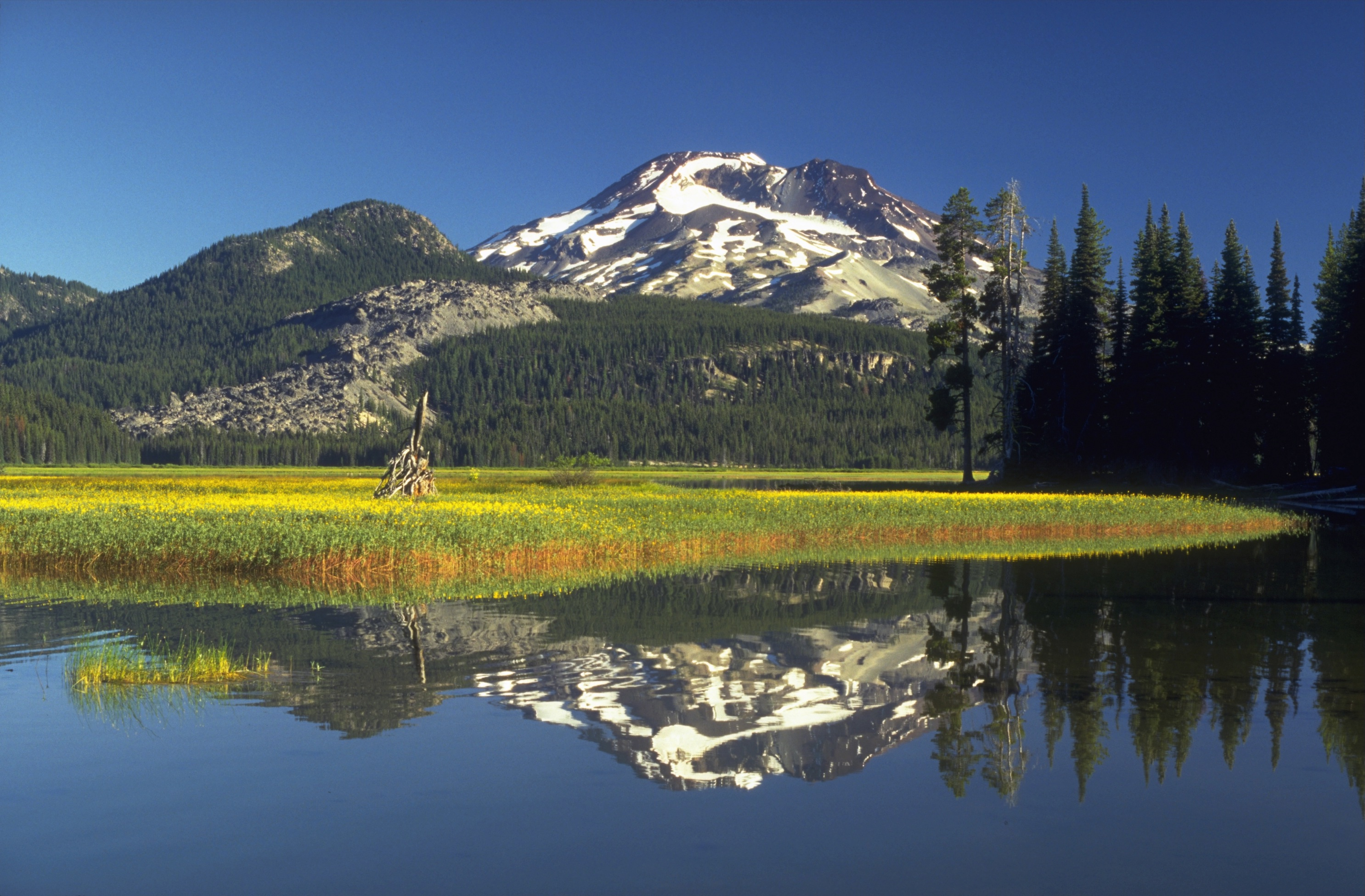 "South Sister volcano, reflected in the waters of Sparks Lake, is the highest and youngest of the Three Sisters volcanoes in the central Oregon Cascades. The summit cone of South Sister has not erupted since the very latest Pleistocene, but the light-colored rocks above the meadow at the left are part of a group of lava flows on the flank that were extruded about 2000 years ago. "